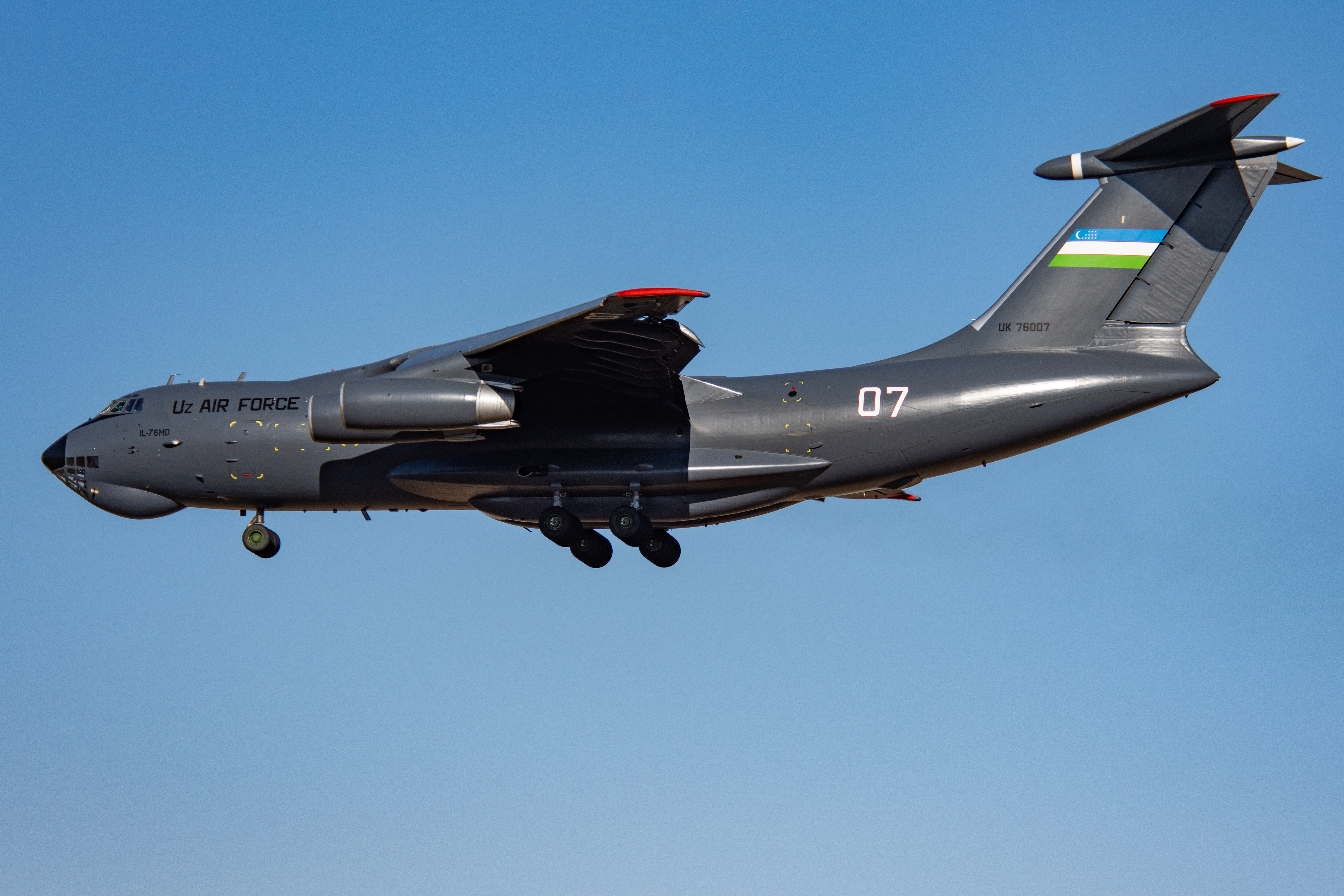 UK76007 from Tashkent or somewhere. Nice to meet you, Uz Air Force 1276! The meme "1276" comes from a microblogger who didn't know Il-76 and mistook that the PLA medical team took a boxcar to Wuhan in late January 2020. "伊尔76" is homophonic to "一二七六" in Chinese.